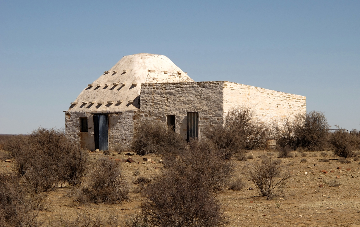 This house, which appears to be inhabited, is on the right hand side of the road travelling in the direction of Williston from Carnarvon. This media shows a South African Protected Site with SAHRA file reference 00000000.